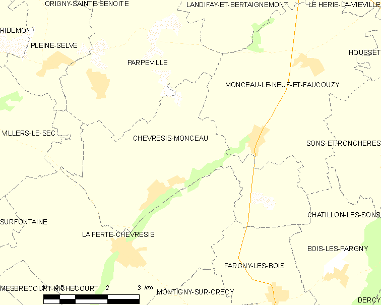 Map of French commune: Chevresis-Monceau Map commune FR insee code 02184.png